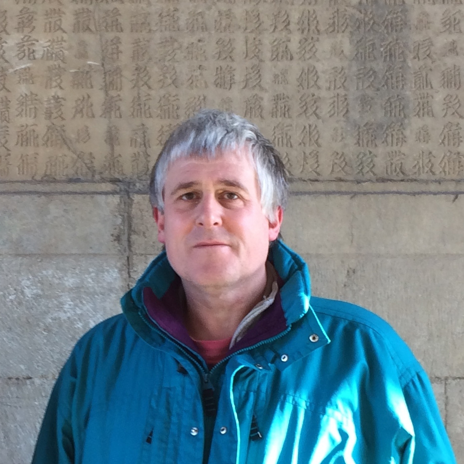 Photograph of Andrew West at the Cloud Platform at Juyongguan, 2013-12-11中文（中国大陆）: 魏安在居庸关云台东壁西夏文石刻前，2013年12月。